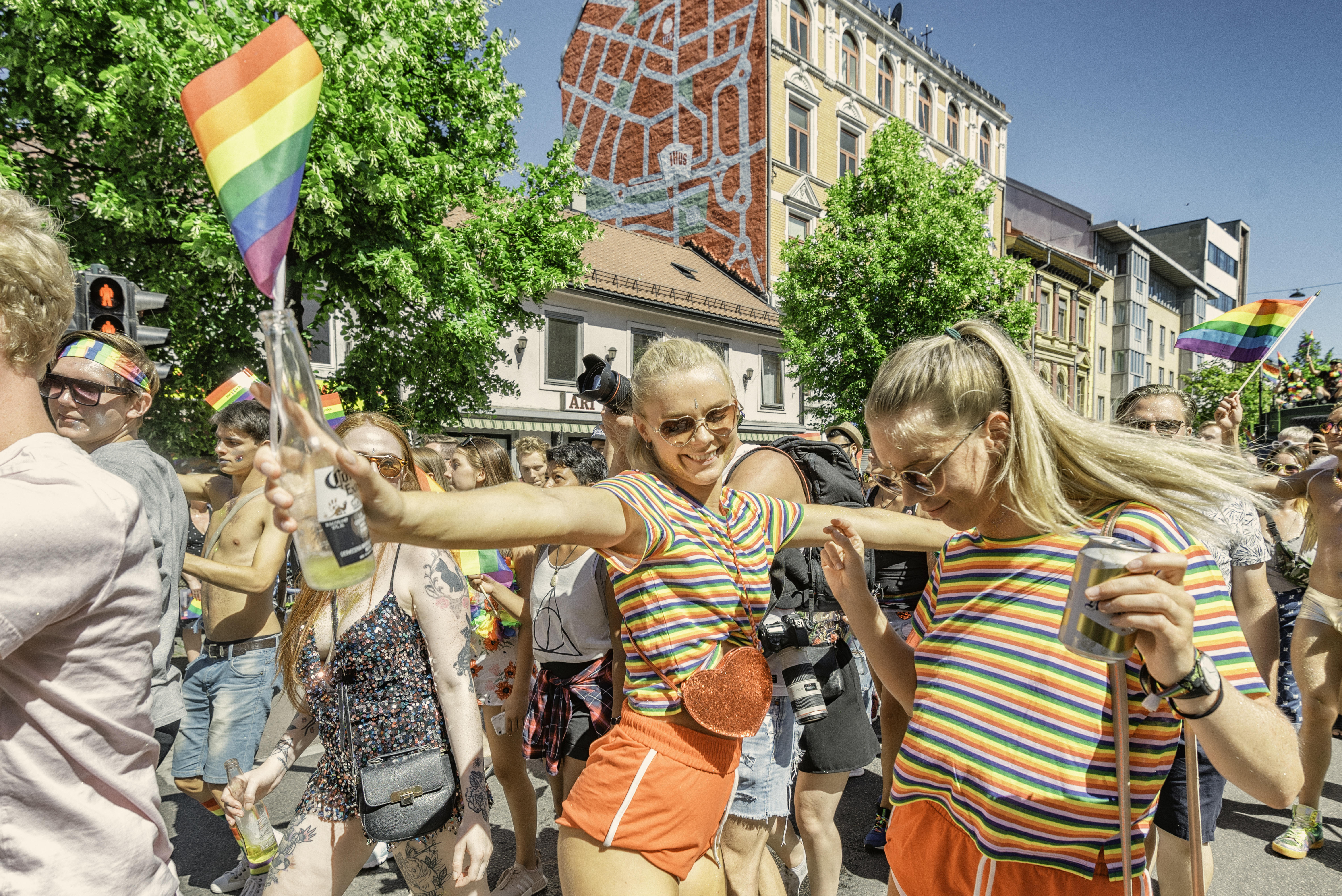 Oslo Pride ParadeLocation: Oslo NorwayEvent type: Oslo Pride ParadeDate or year: 2018